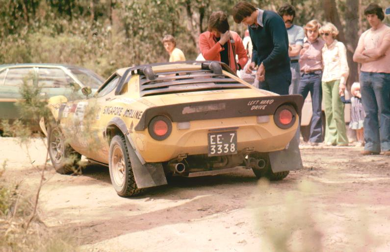 Castrol International Rallye, ACT, 1975